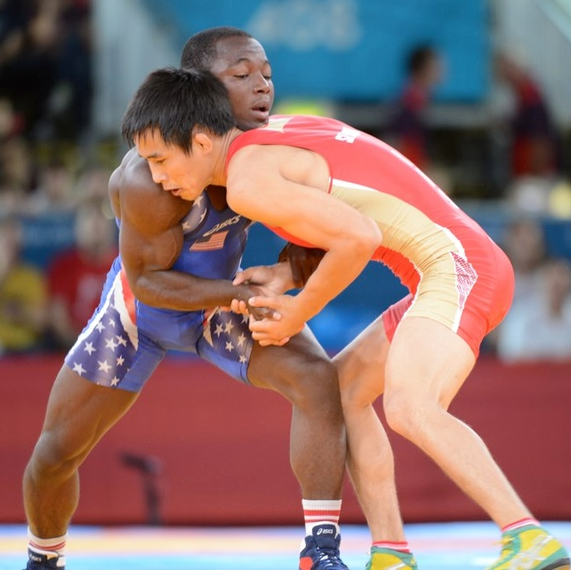 U.S. Army World Class Athlete Program SGT Spenser Mango loses 2-0, 1-0 to Russia's Mingiyan Semenov in the first round of repechage in the 55-kilogram/121-pound Greco-Roman division of the Olympic wrestling tournament Aug. 5 at ExCel North Arena in London. Mango went 1-2 and finished ninth in his weight class. U.S. Army photo by Tim Hipps, IMCOM Public Affairs